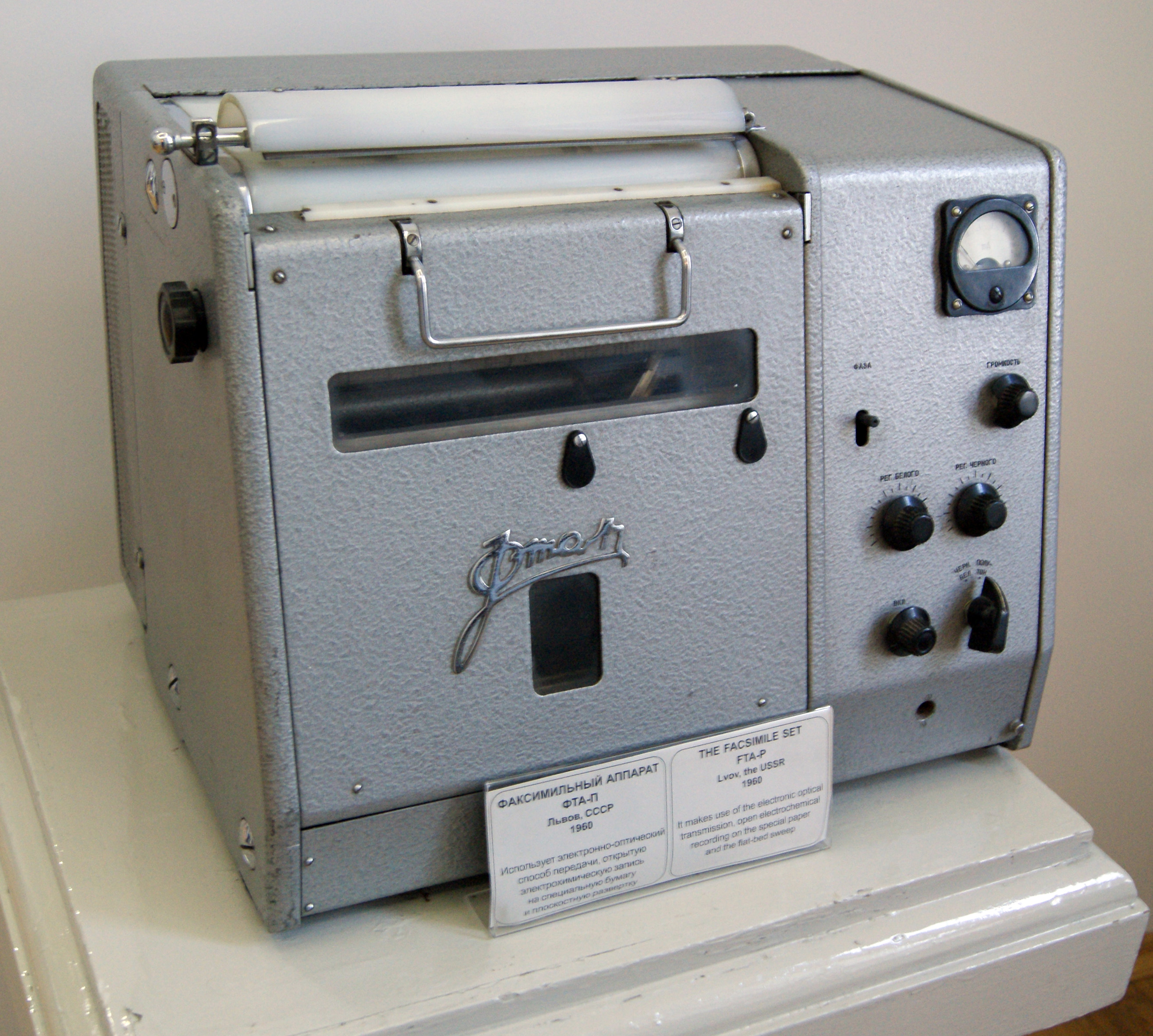 Soviet facsimile set (1960)